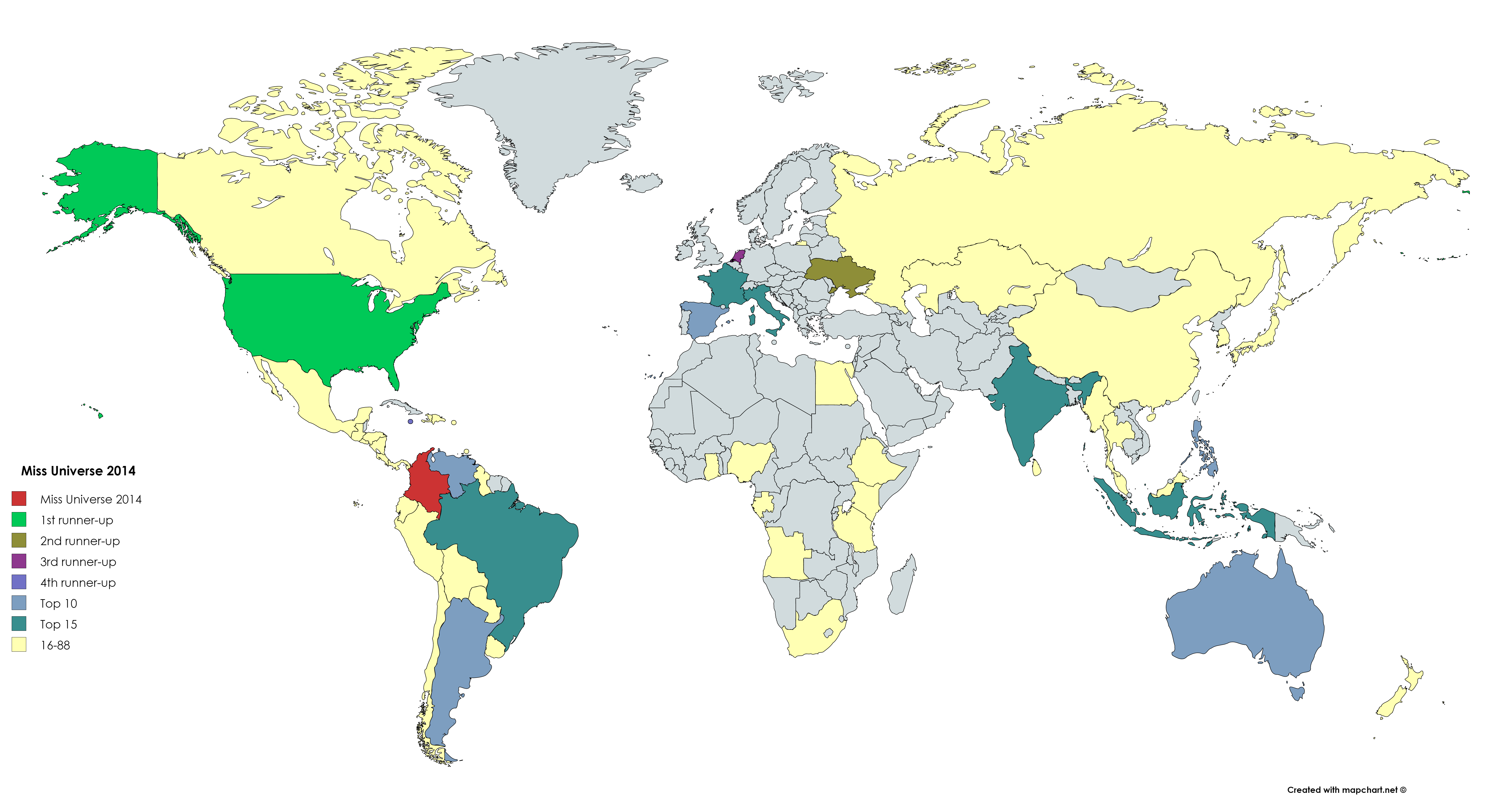 Countries and territories which sent delegates and results for Miss Universe 2014